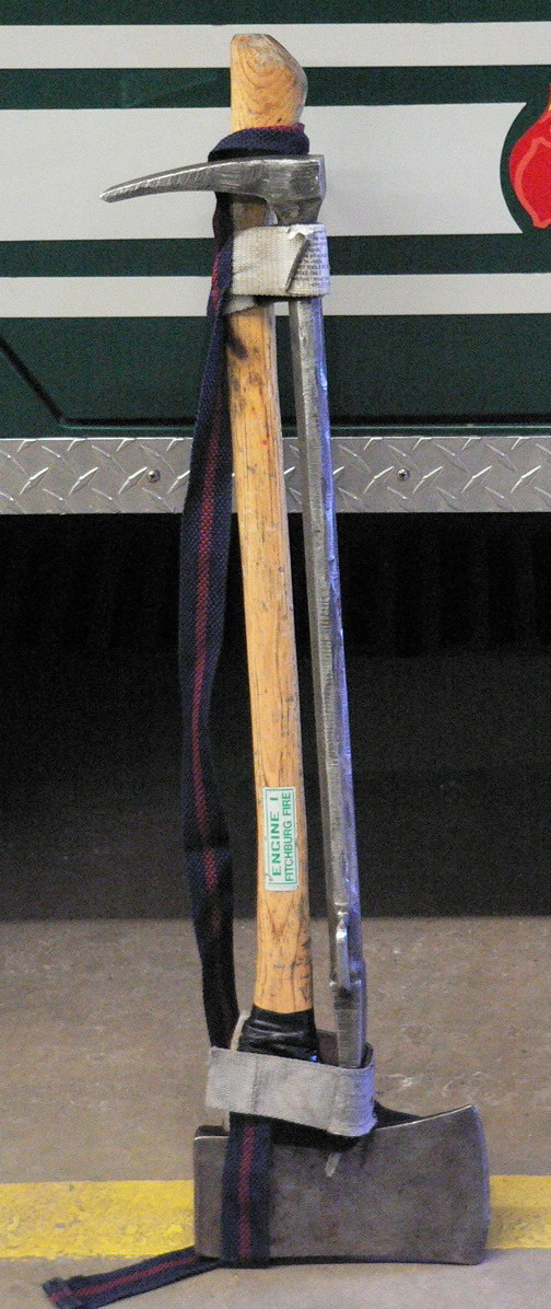 A set of irons: a Halligan bar and a flat head axe, married together with a Milwaukee strap.